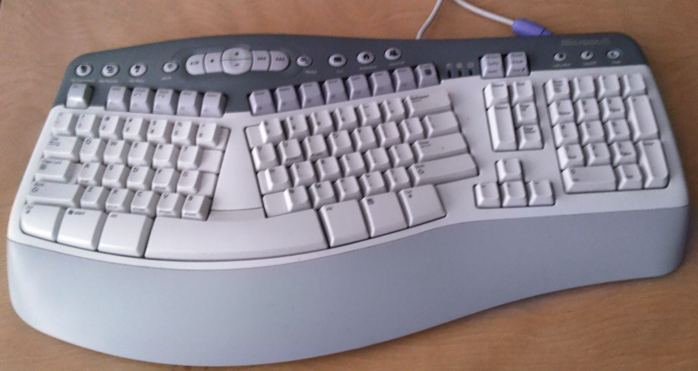 This is the MS Natural Multimedia Keyboard, a successor to the MS Natural Keyboard.